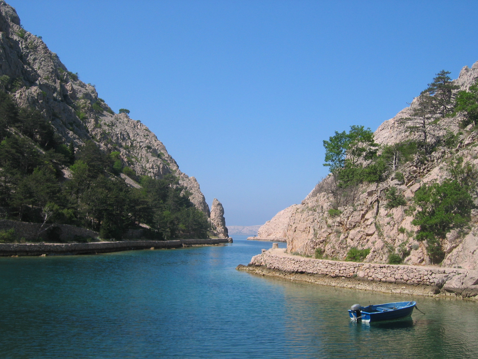 Zavratnica, 900m long narrow bay in northern Adriatic coast of Croatia, near village Jablanac